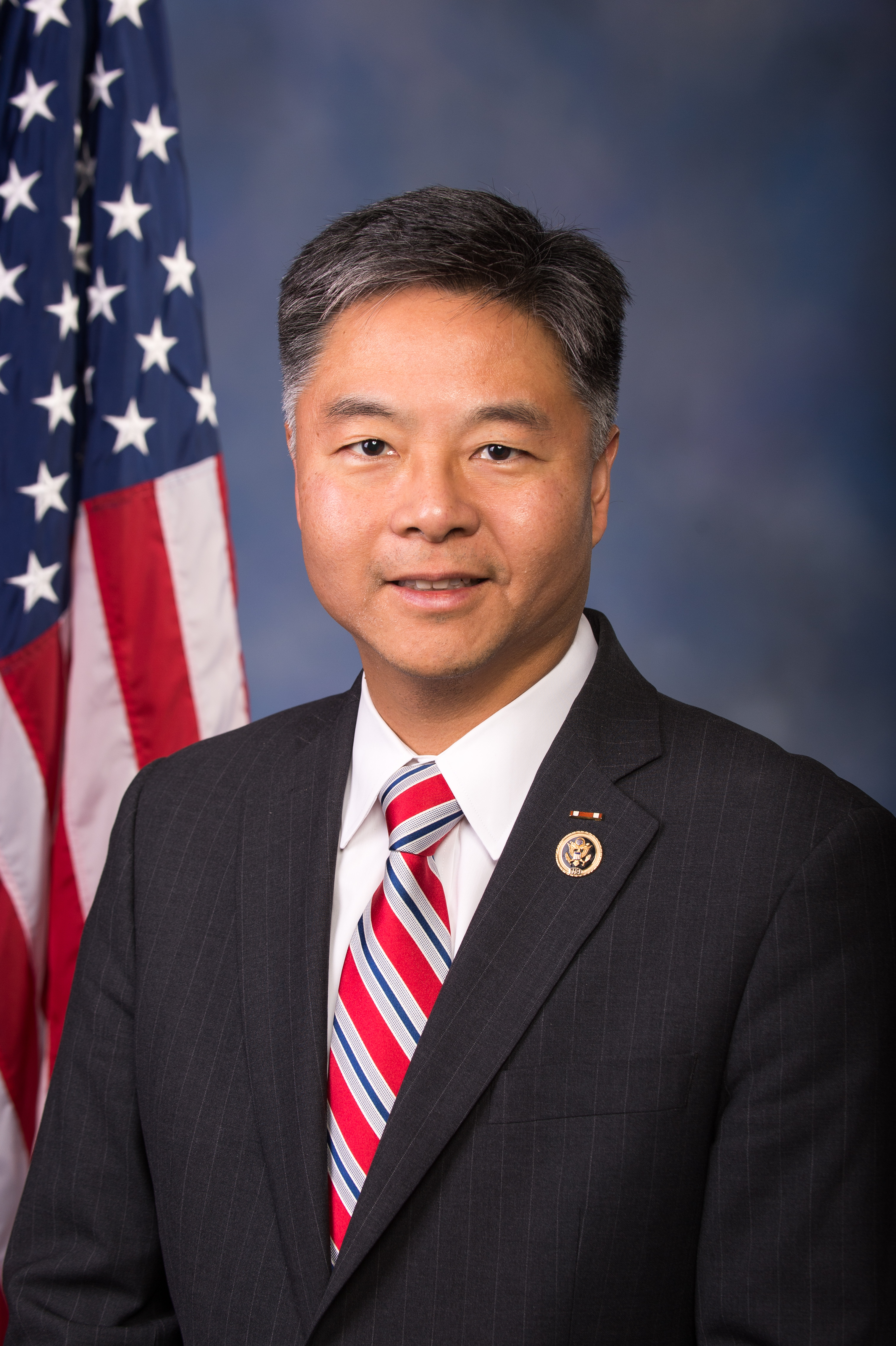 Official photo of U.S. Congressman Ted W. Lieu